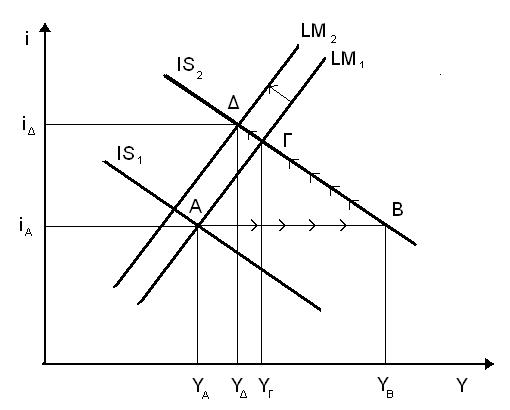 IS-LM model diagram